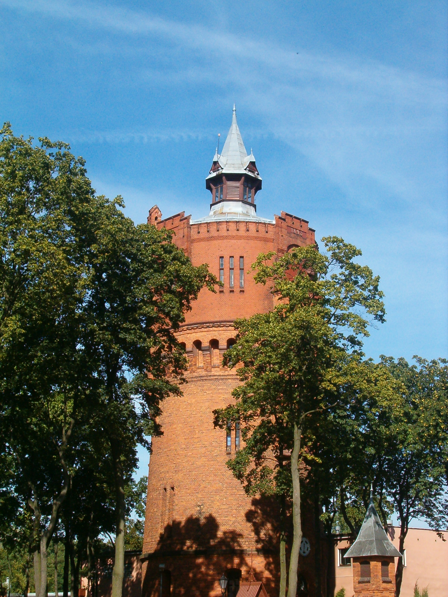 Toruń, Bielany disctric, water tower.